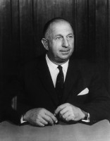 Photograph of Sir Henry Edward Bolte, Premier of Victoria.